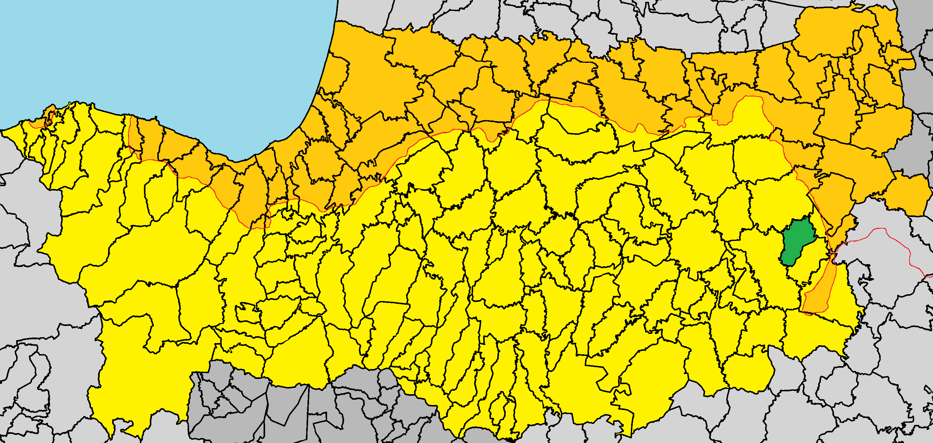 Agios Sozomenos in Nicosia District.